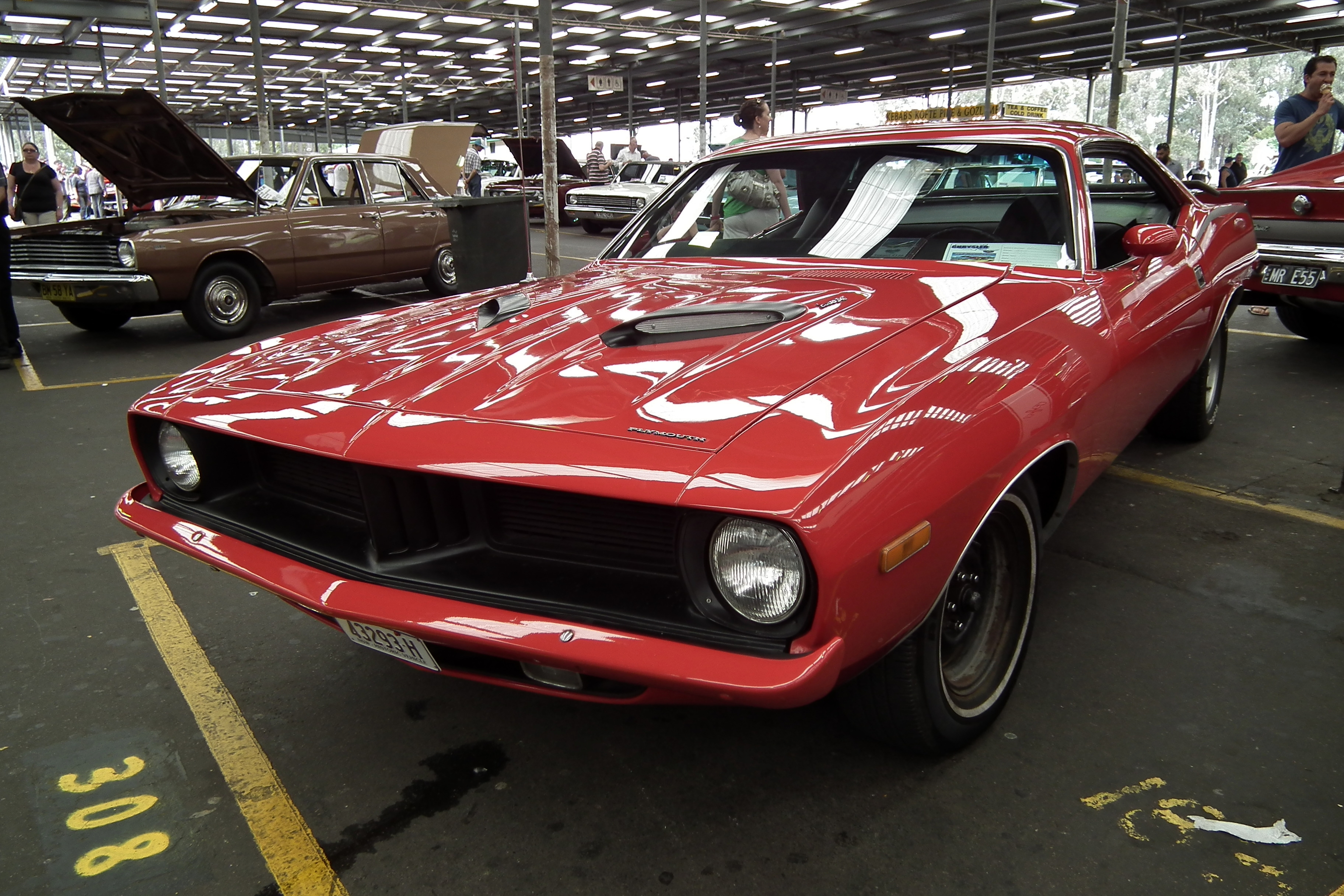 1973 Plymouth 'Cuda 340 coupe. Taken at the 2011 New South Wales All Chrysler Day, held at Fairfield Showground, Prairiewood, Sydney.